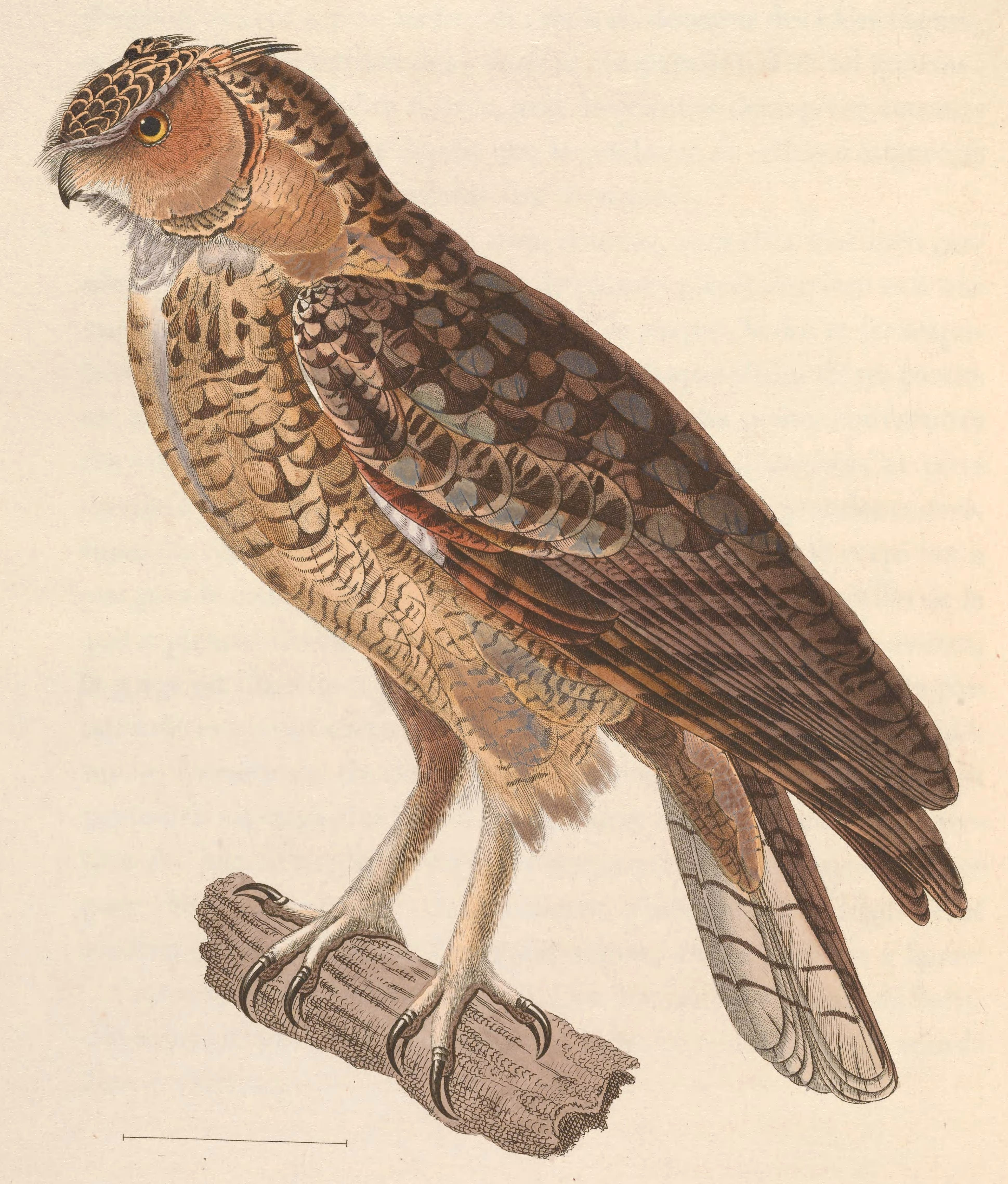 « Strix ascalaphus » = Bubo ascalaphus (Pharaoh Eagle Owl)